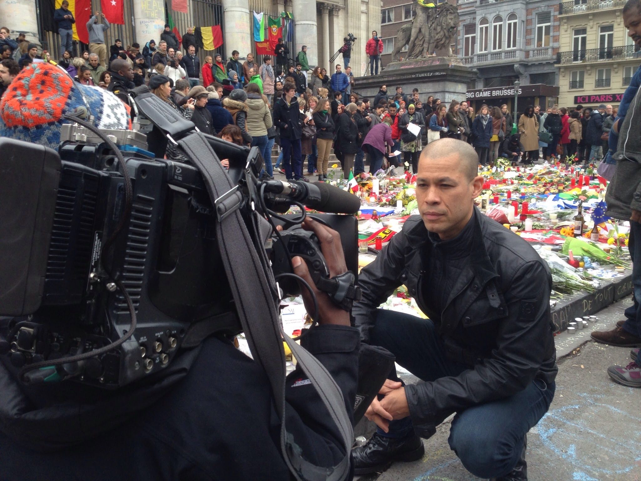 CBS News correspondent Vladimir Duthiers reporting from Brussels, Belgium after the March 2016 terror bombings.